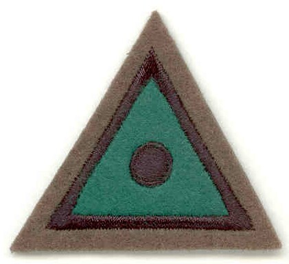 Special Observer Badge The Latin motto of which is 'Lateo' meaning, 'I lay hidden'. This badge is achieved after completing the gruelling 18 week, 'Patrols' course. One of the toughest courses in the British Army, the course is run by instructors from 22 Regiment SAS. Only this badge worn on the upper left sleeve identifies these men.